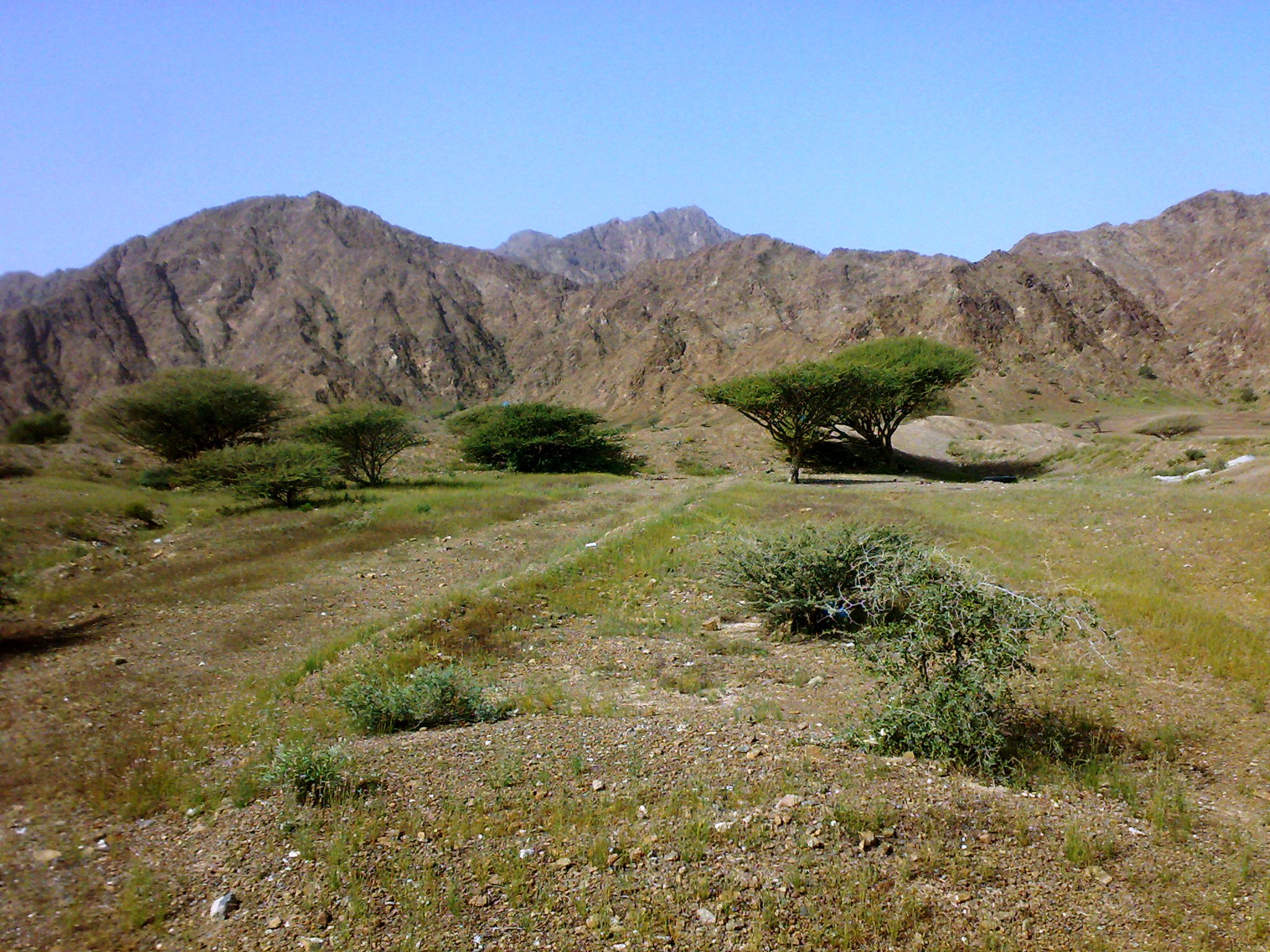 Image from the north of the emirate of Fujeirah, in the eastern United Arab Emirates. The photo shows acacia trees in the landscape.